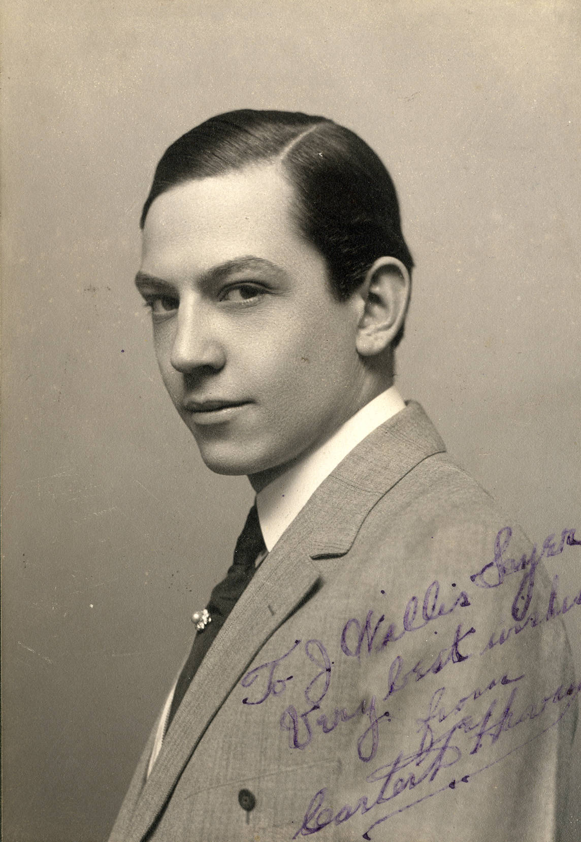 Actor Carter DeHaven. Subjects: actors